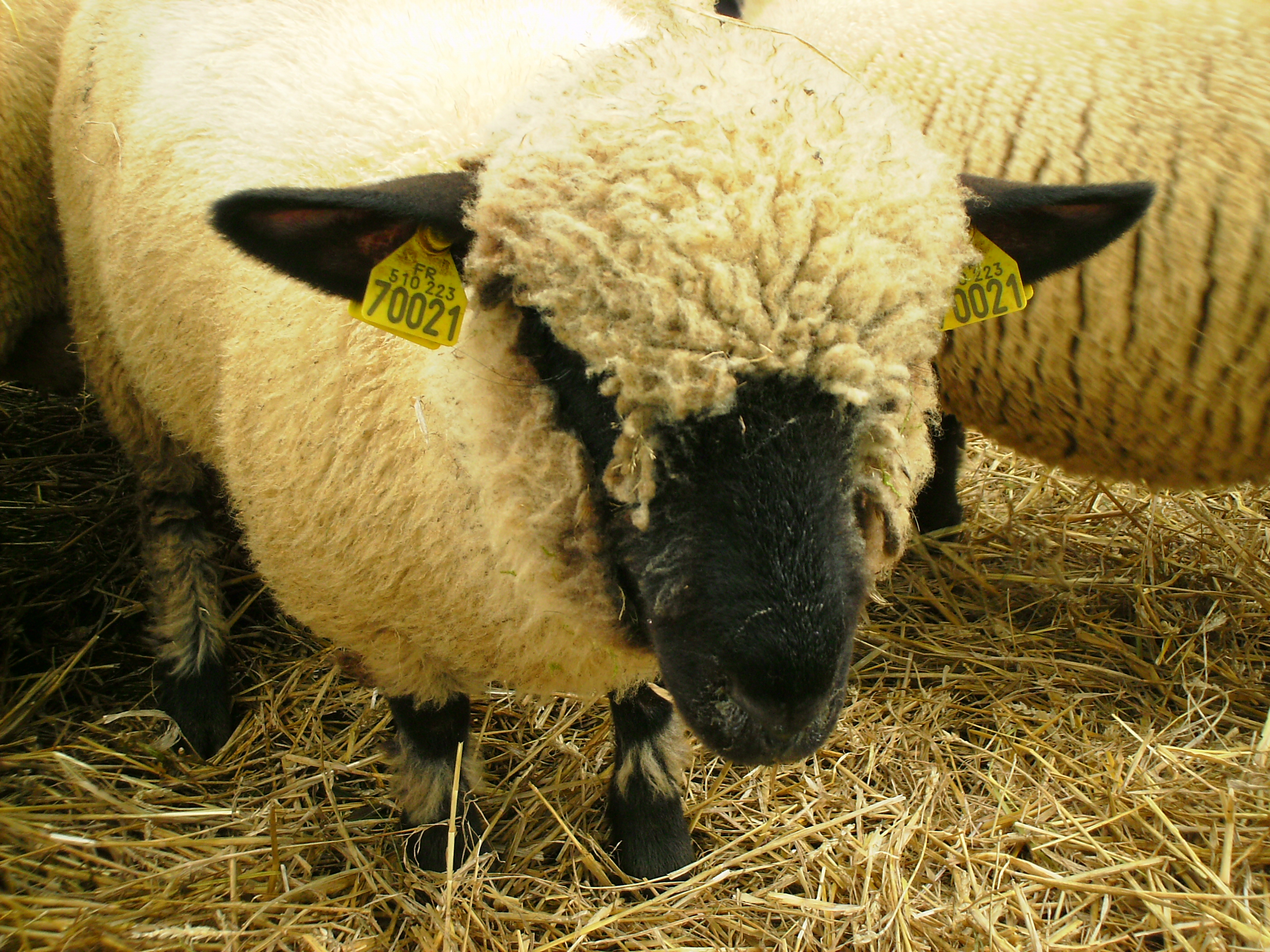 Sheep, "Hampshire" race